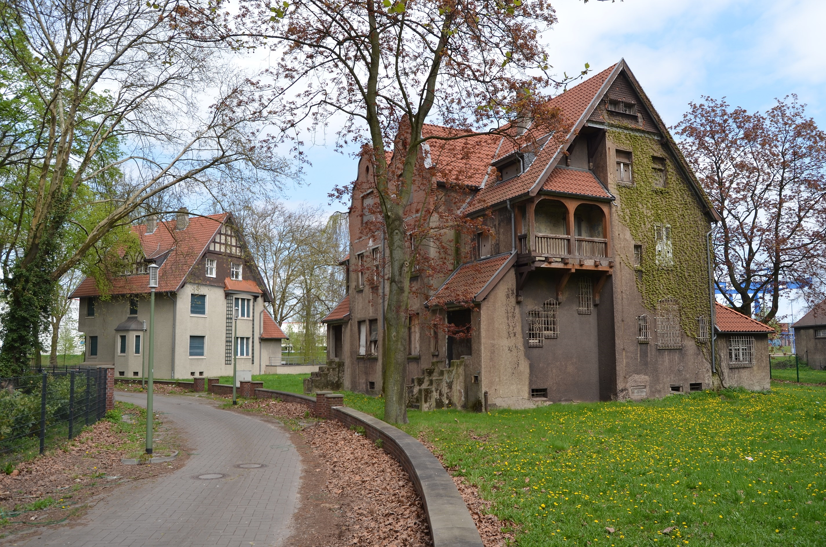 Duisburg (North Rhine-Westphalia, Germany) – borough Rheinhausen, district Friemersheim – former Bliersheim executive settlement – villas – run-down and renovated building by comparison This image shows a heritage building in Germany, located in the North Rhine-Westphalian city Duisburg (no. 153, 154). This photograph was taken with a Nikon D7000.